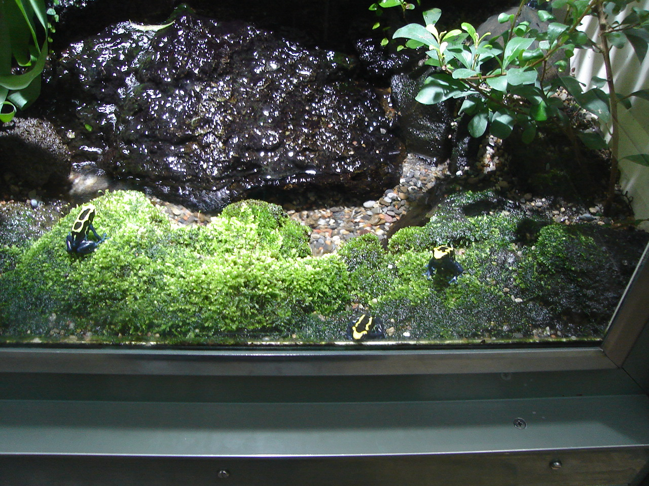 Dyeing Poison Dart Frogs (Dendrobates tinctorius) at Zürich Zoo